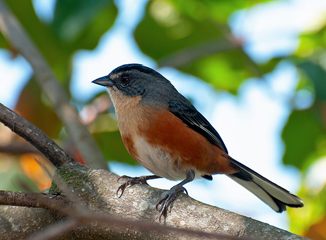 A Buff-throated Warbling Finch in Extrema, Minas Gerais, Brazil.